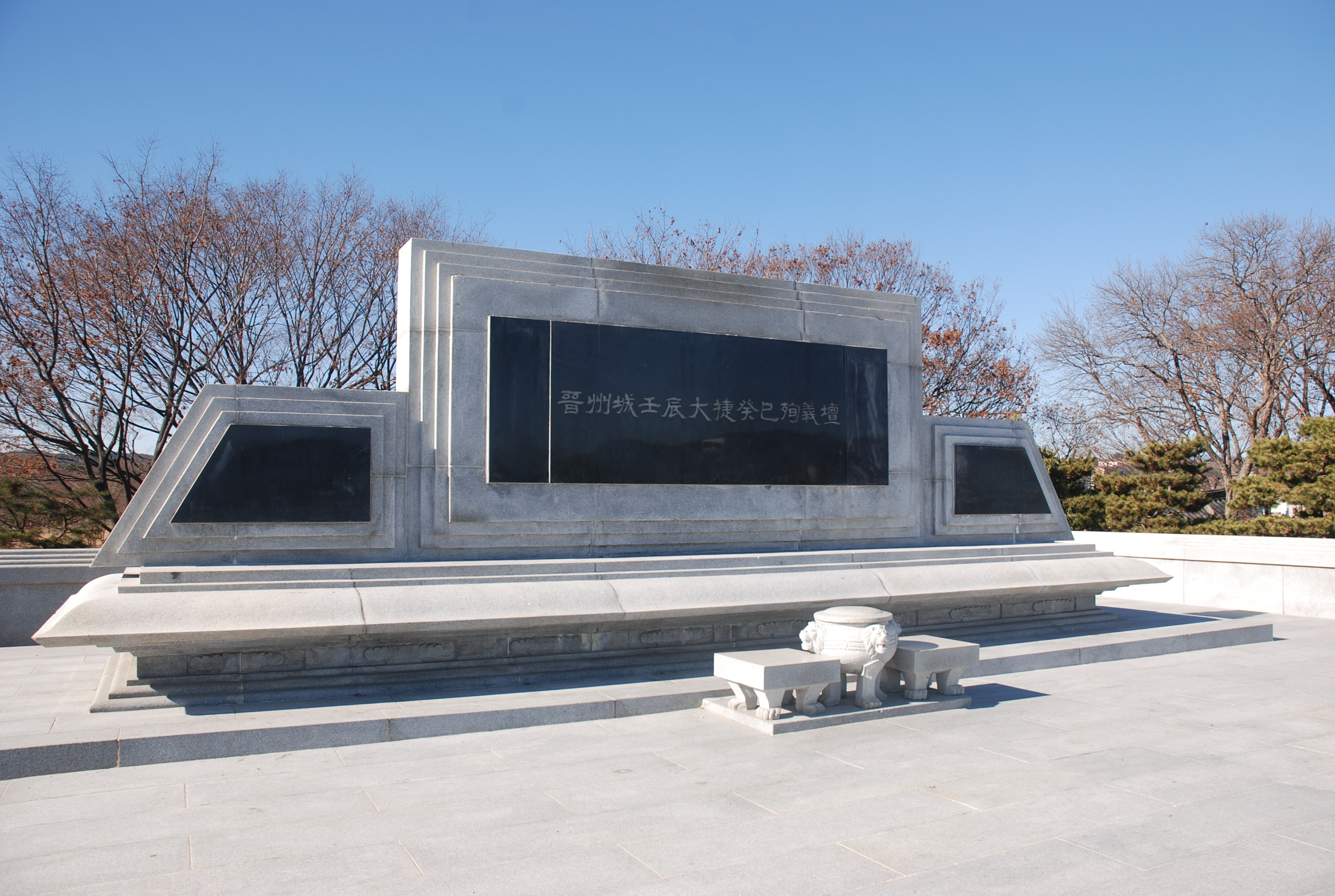 Jinju battle memorial monument in honor of the victory in 1592 and the war dead in 1593